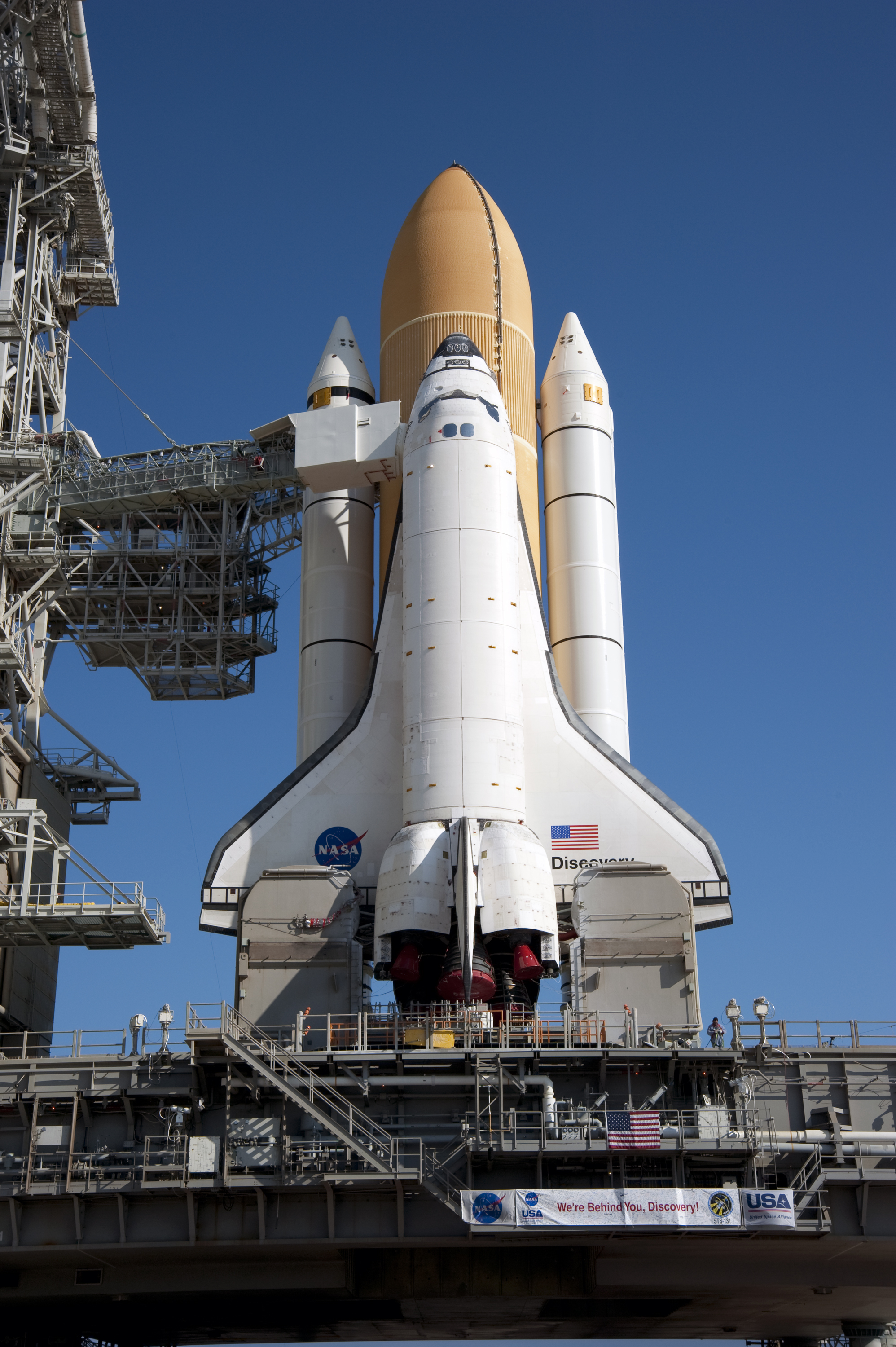 CAPE CANAVERAL, Fla. – On Launch Pad 39A at NASA's Kennedy Space Center in Florida, the pad's White Room, which provides workers and astronauts an entry point to a shuttle's crew compartment, is moved into place against space shuttle Discovery. Discovery's first motion on its 3.4-mile trip from the Vehicle Assembly Building was at 11:58 p.m. EST March 2. The shuttle was secured on the pad at 6:48 a.m. March 3. Rollout is a significant milestone in launch processing activities. The seven-member STS-131 crew will deliver the multi-purpose logistics module Leonardo, filled with resupply stowage platforms and racks, to the International Space Station aboard Discovery. Targeted for launch on April 5, STS-131 will be the 33rd shuttle mission to the station and the 131st shuttle mission overall. For information on the STS-131 mission and crew, visit